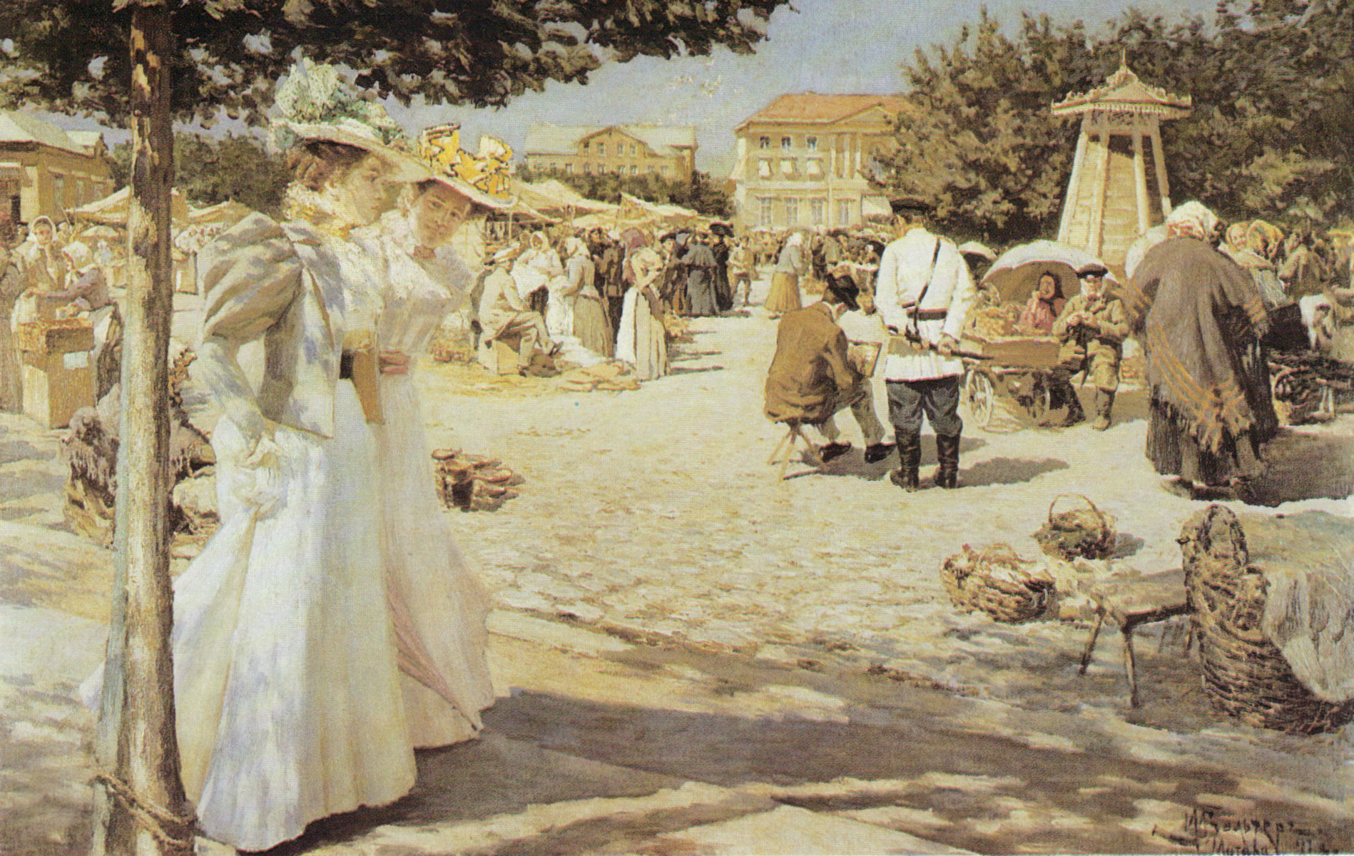 diplomwork of Jānis Valters (Johann Walter-Kurau) in 1897